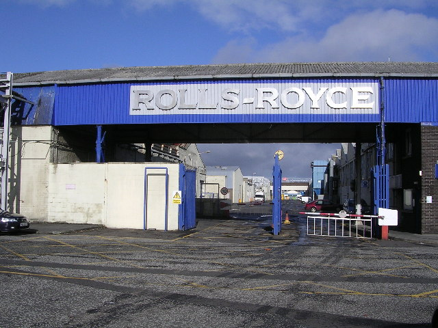 Rolls-Royce, Hillington. The Rolls-Royce Hillington facility was constructed during World War II as a manufacturing plant for the Merlin engine.